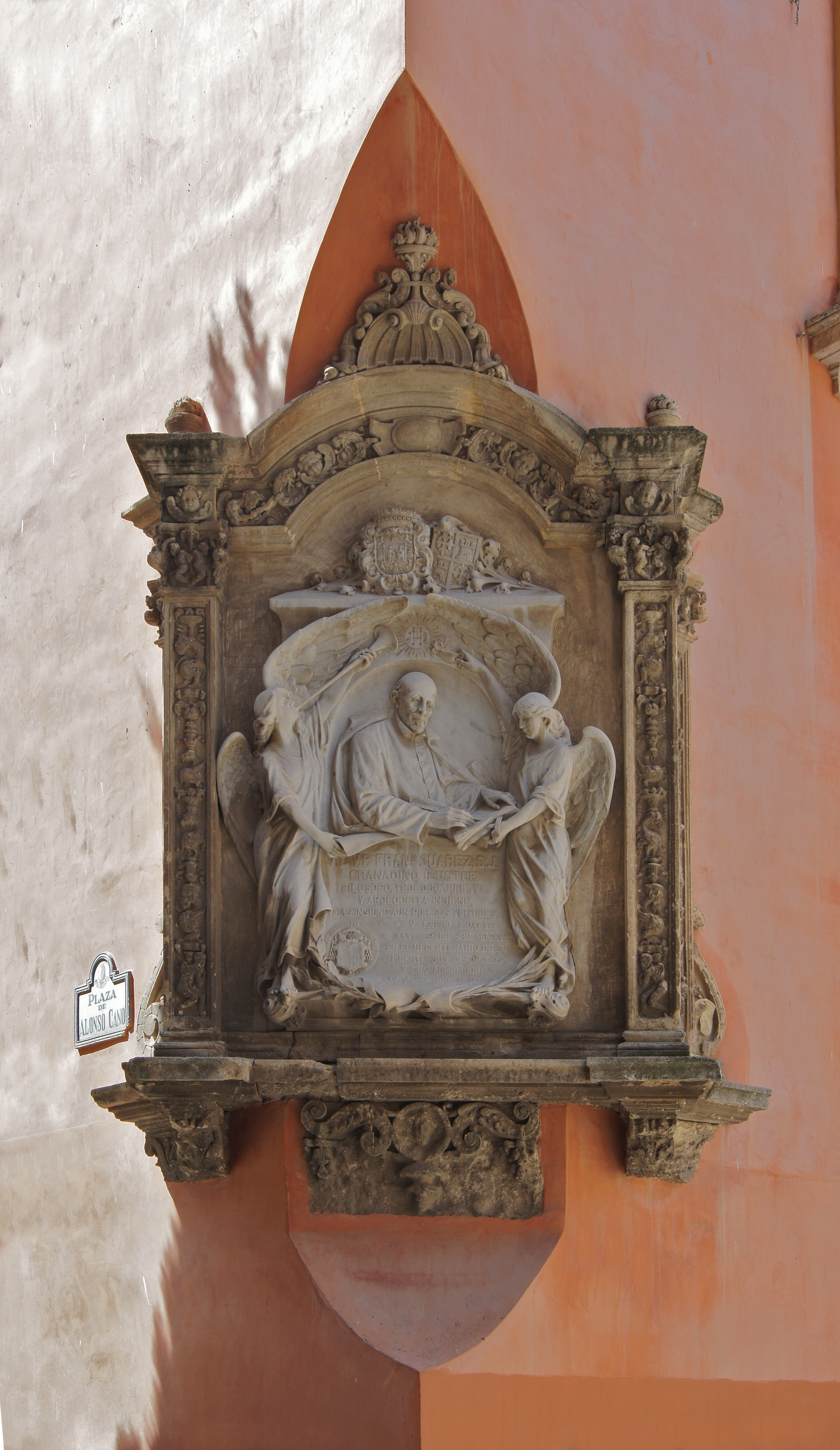 Monument in tribute to Francisco Suárez, famous jesuit spanish theologian (1548-1617), erected in 1917 in a niche at an edge of the archbishops palace in his birth city of Granada, Spain.